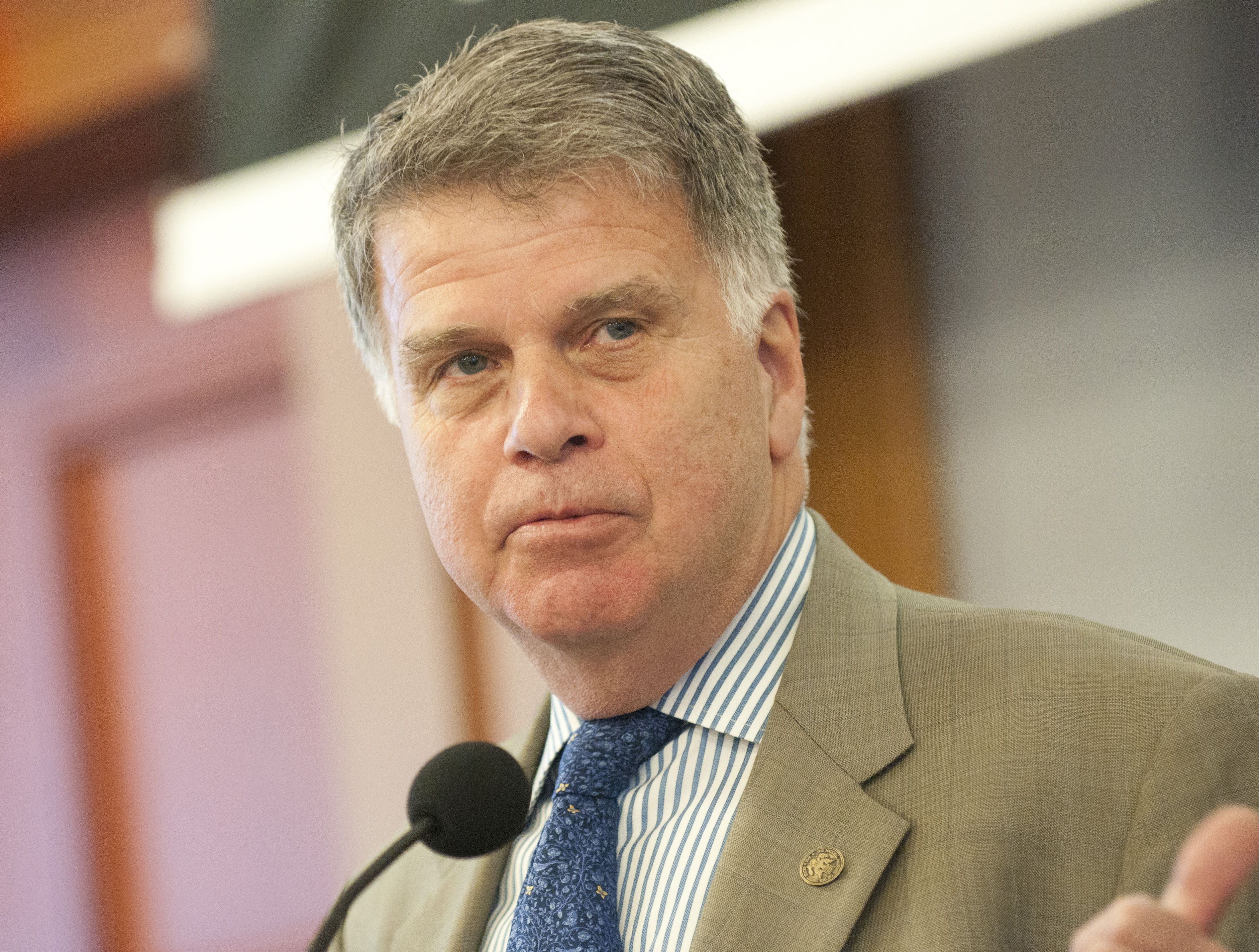 Archivist of the United States. At Wikipedia in Higher Summit. Main College Building, Paresky Center, Simmons College. CC0 waiver: To the extent possible under law, I waive all copyright and related or neighboring rights to this work.